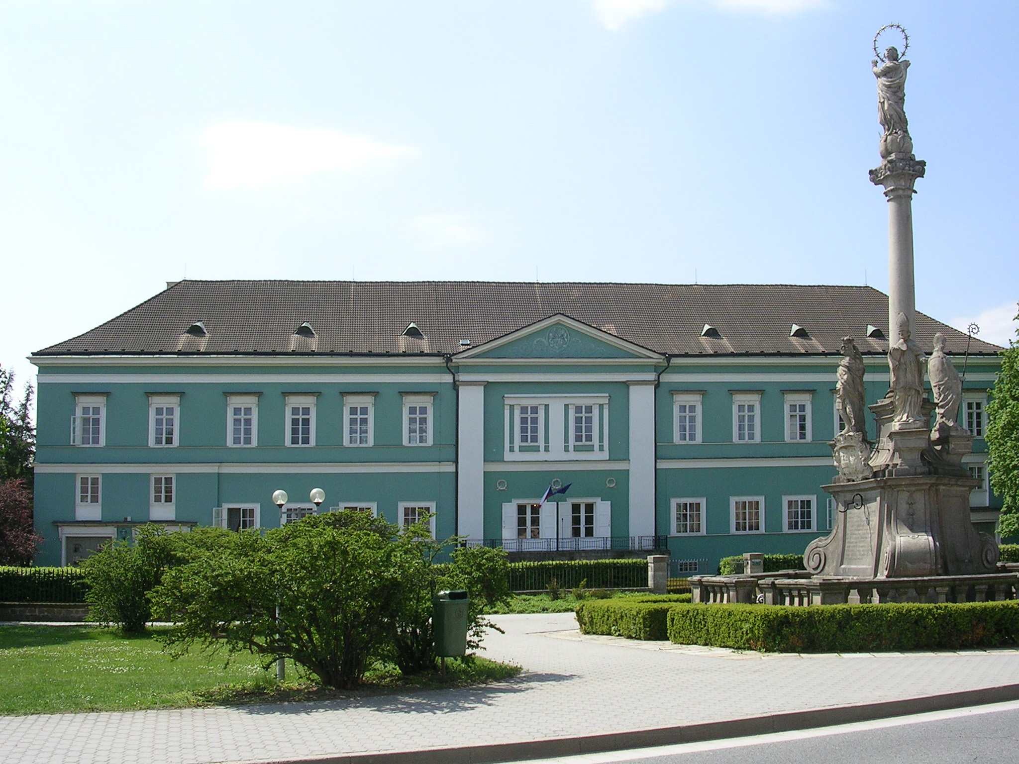 Dačice, South Bohemian Region, the Czech Republic. The new castle.